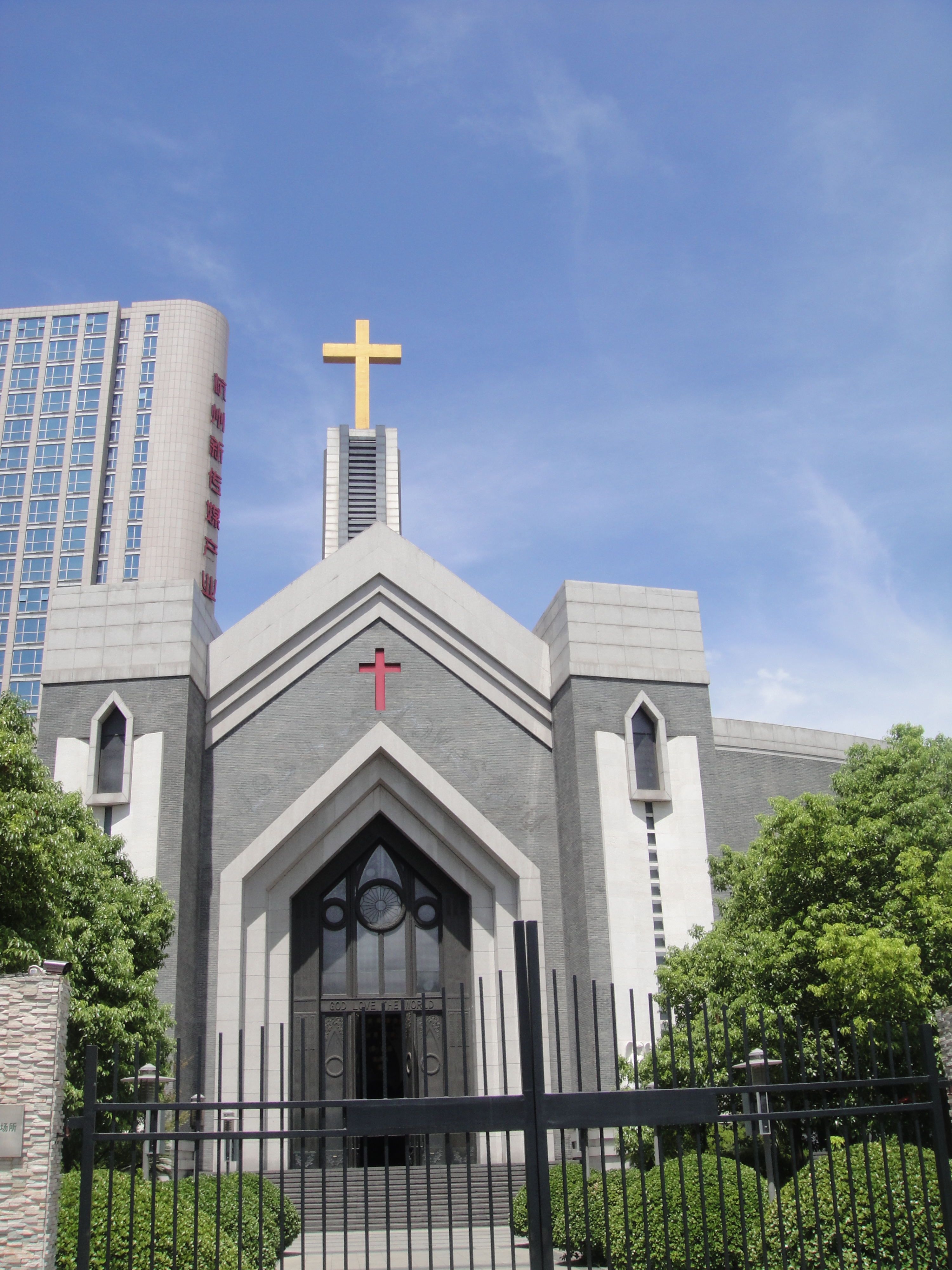 The Gate of Chongyi Christian Church in Hangzhou